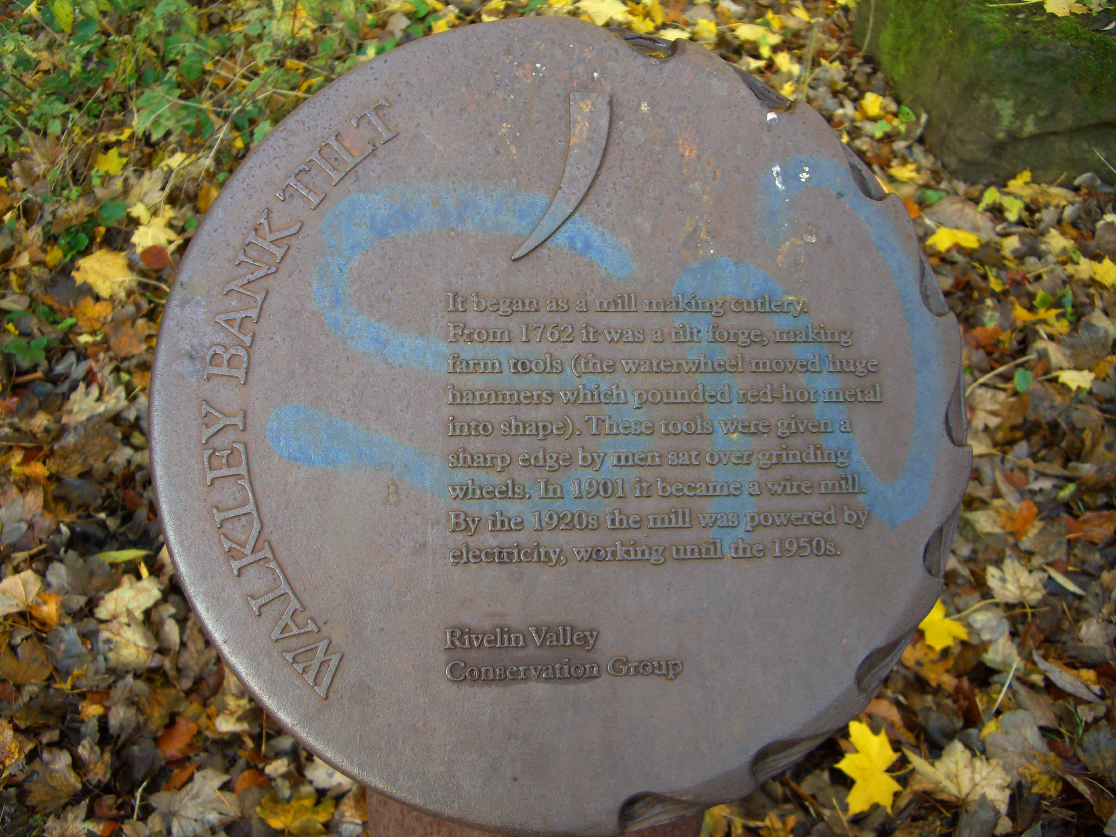 Walkley Bank Tilt marker in the Rivelin Valley, Sheffield